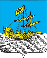 Kostroma, coat of arms